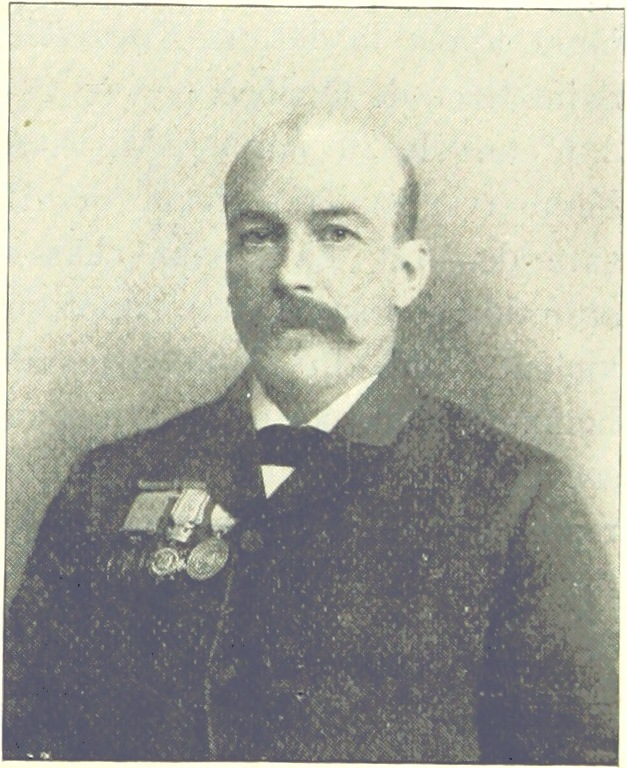 Image taken from: Title: "Labrador et Anticosti. Journal de voyage. Histoire, Topographie, etc. [With map.]" Author: HUARD, Victor Amédée. Shelfmark: "British Library HMNTS 10470.e.32." Page: 95 Place of Publishing: Montréal Date of Publishing: 1897 Publisher: C. O. Beauchemin & Fils Issuance: monographic Identifier: 001752323 Note: The colours, contrast and appearance of these illustrations are unlikely to be true to life. They are derived from scanned images that have been enhanced for machine interpretation and have been altered from their originals. Following this or the link above will take you to the British Library's integrated catalogue. You will be able to download a PDF of the book this image is taken from, as well as view the pages up close with the 'itemViewer'. Click on the 'related items' to search for the electronic version of this work. Click here to see all the illustrations in this book and click here to browse other illustrations published in books in the same year. Please click on the tags shown on the right-hand side for other ways to browse the illustrations.